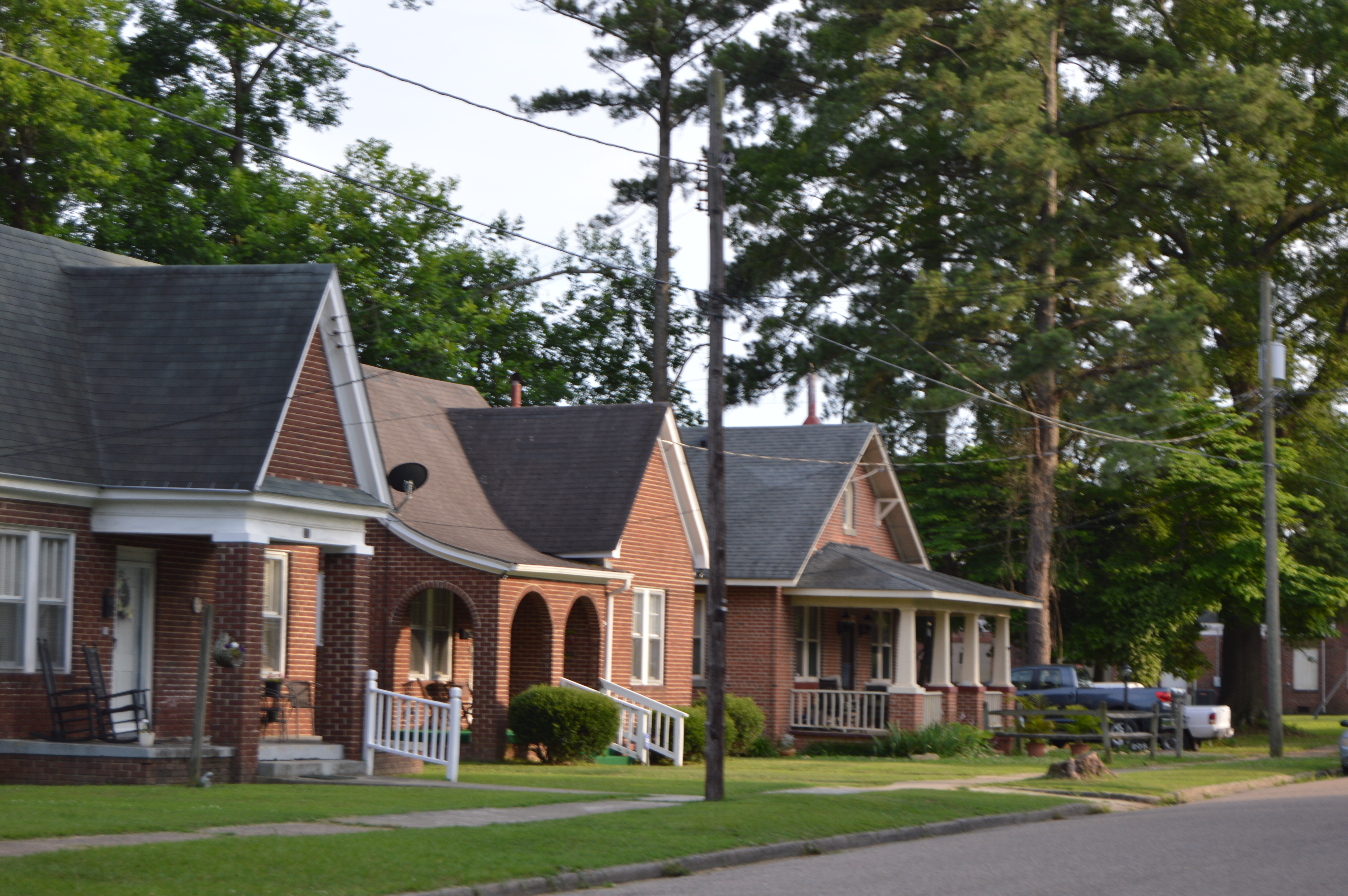 Houses on the eastern side of McGlohon Street between First and North Streets in Ahoskie, North Carolina, United States. This block is part of the Ahoskie Historic District, a historic district that is listed on the National Register of Historic Places.